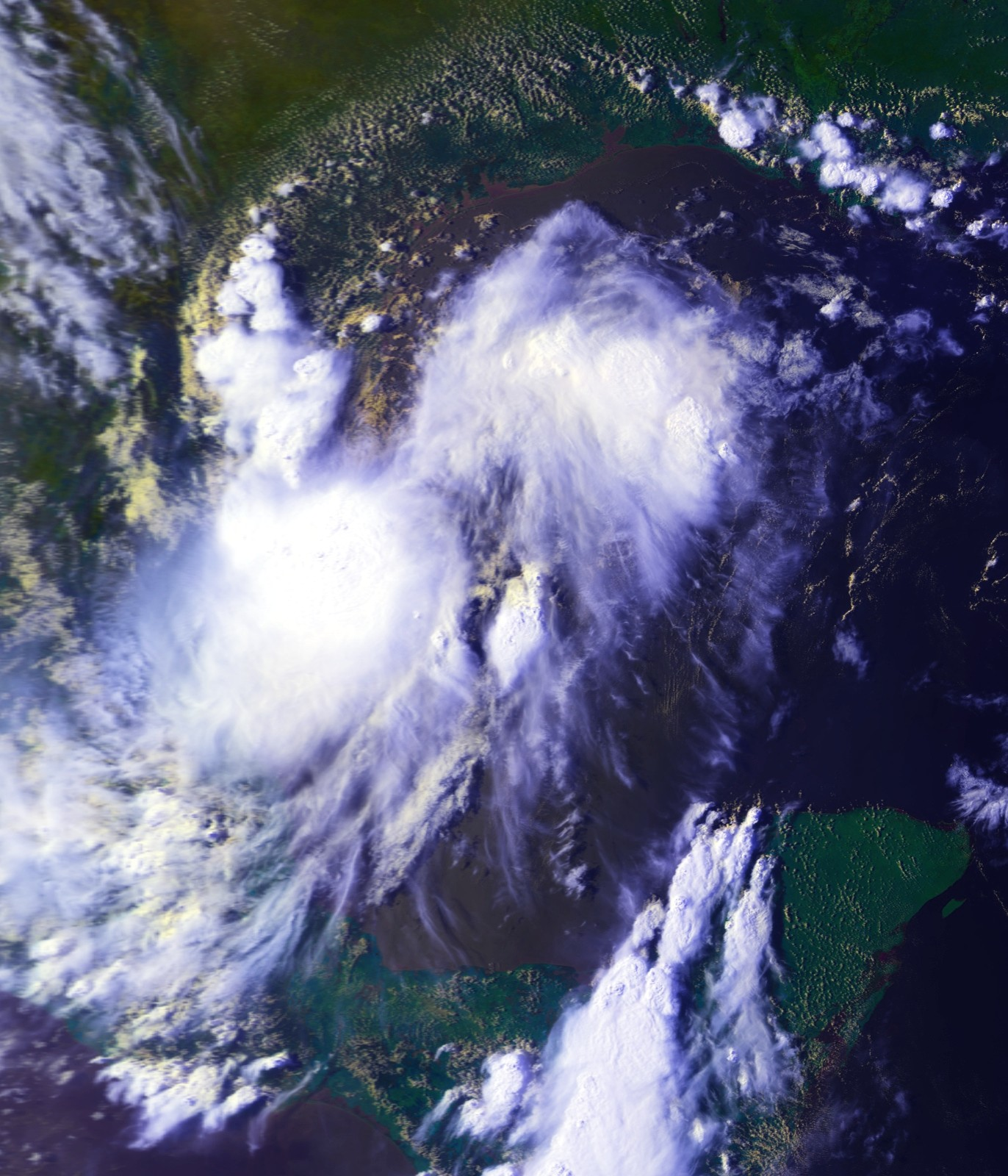 This image shows Tropical Storm Beryl at peak intensity on August 14 at 2143 UTC. Maximum sustained winds were 50 mph. This image was produced from data from NOAA-14, provided by NOAA.